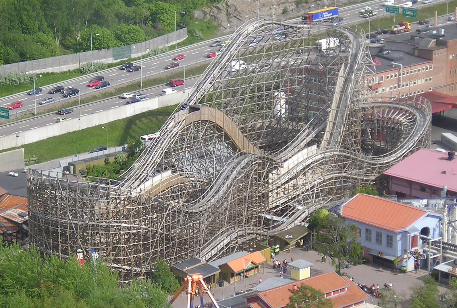 Balder rollercoaster at Liseberg amusement park, as seen from The Liseberg Tower